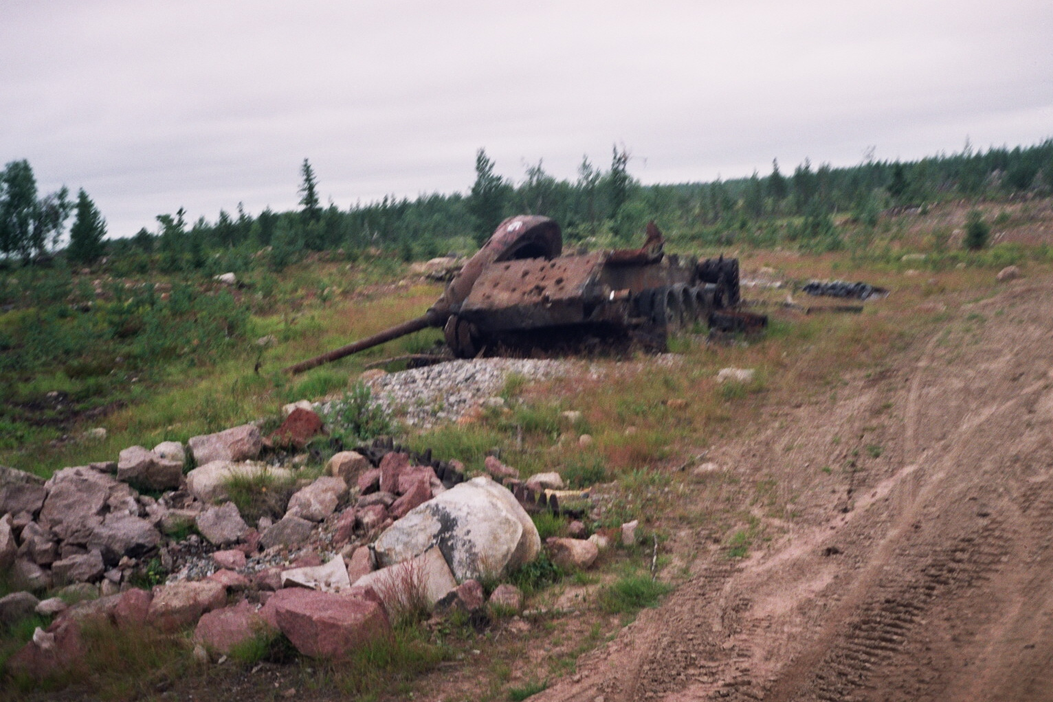 A T-54 tank used as a shooting target in the Rovajärvi military shooting range in northern Finland. Photo taken from a moving truck.